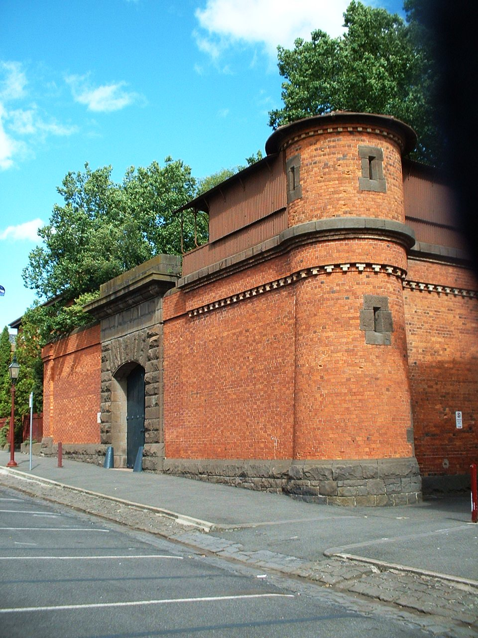 The remaining gaol tower at the old Ballarat Gaol, Victoria, Australia. The building is now part of the University of Ballarat.